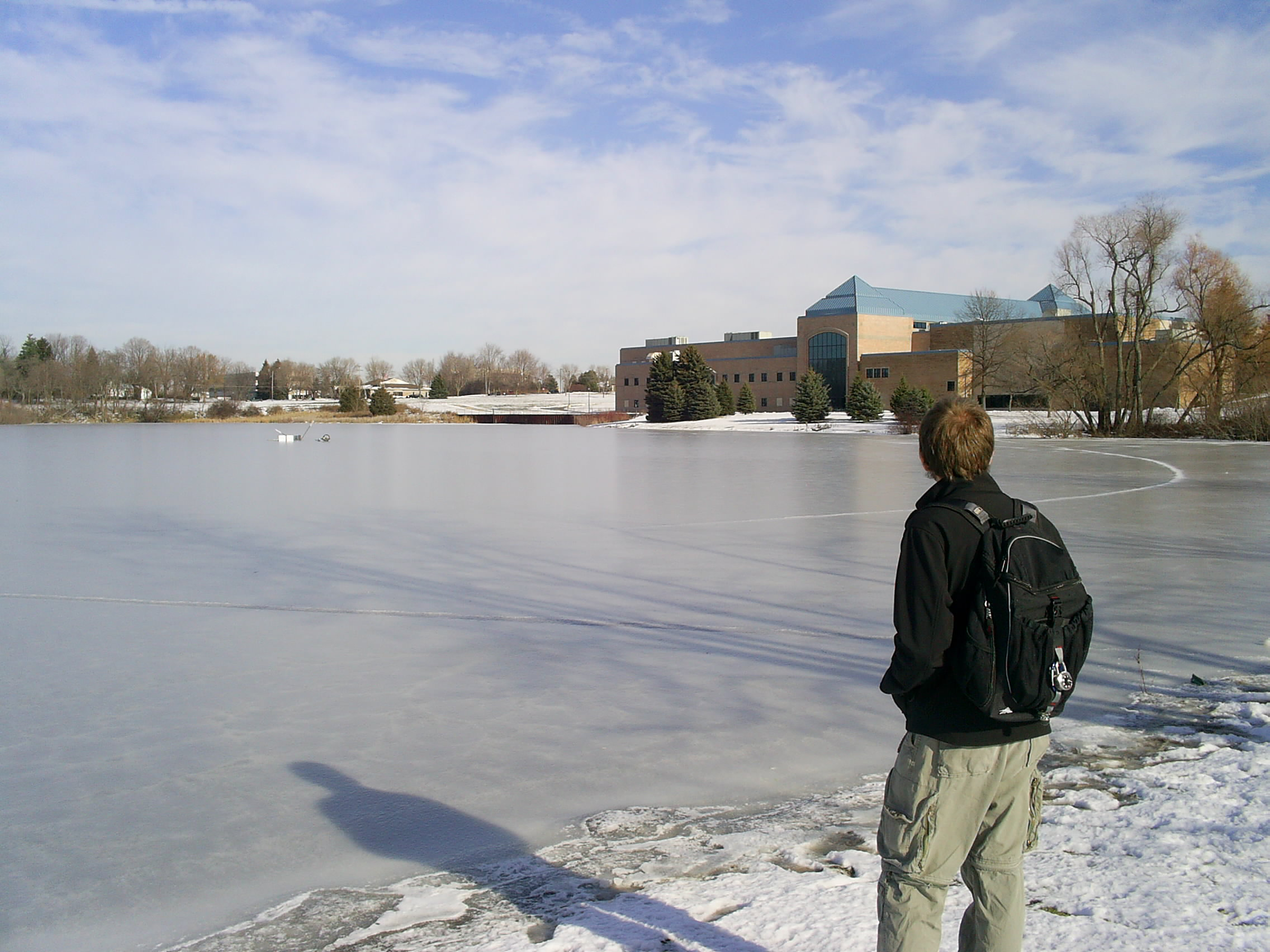 The pond at Cornerstone University during the winter. Bernice Hanson Center in Background